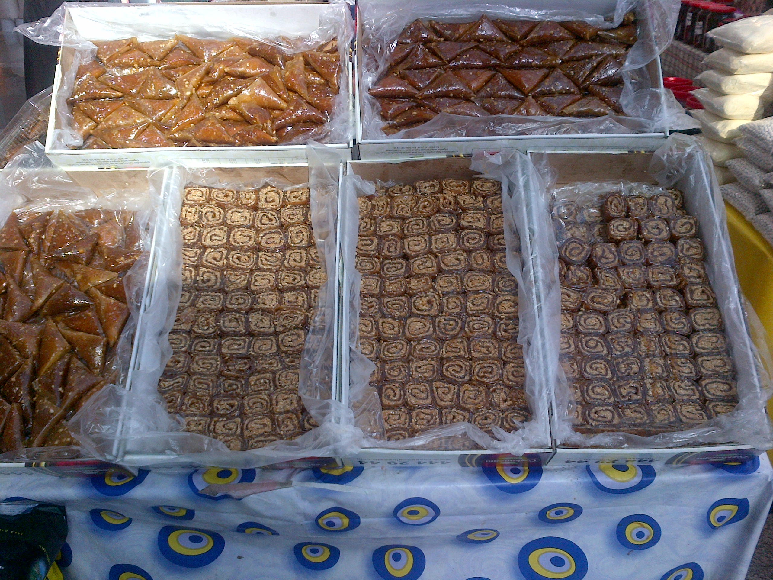 Lokum (Turkish delight) and "köme" (a variant of "pestil") from Turkey, at Ankara.